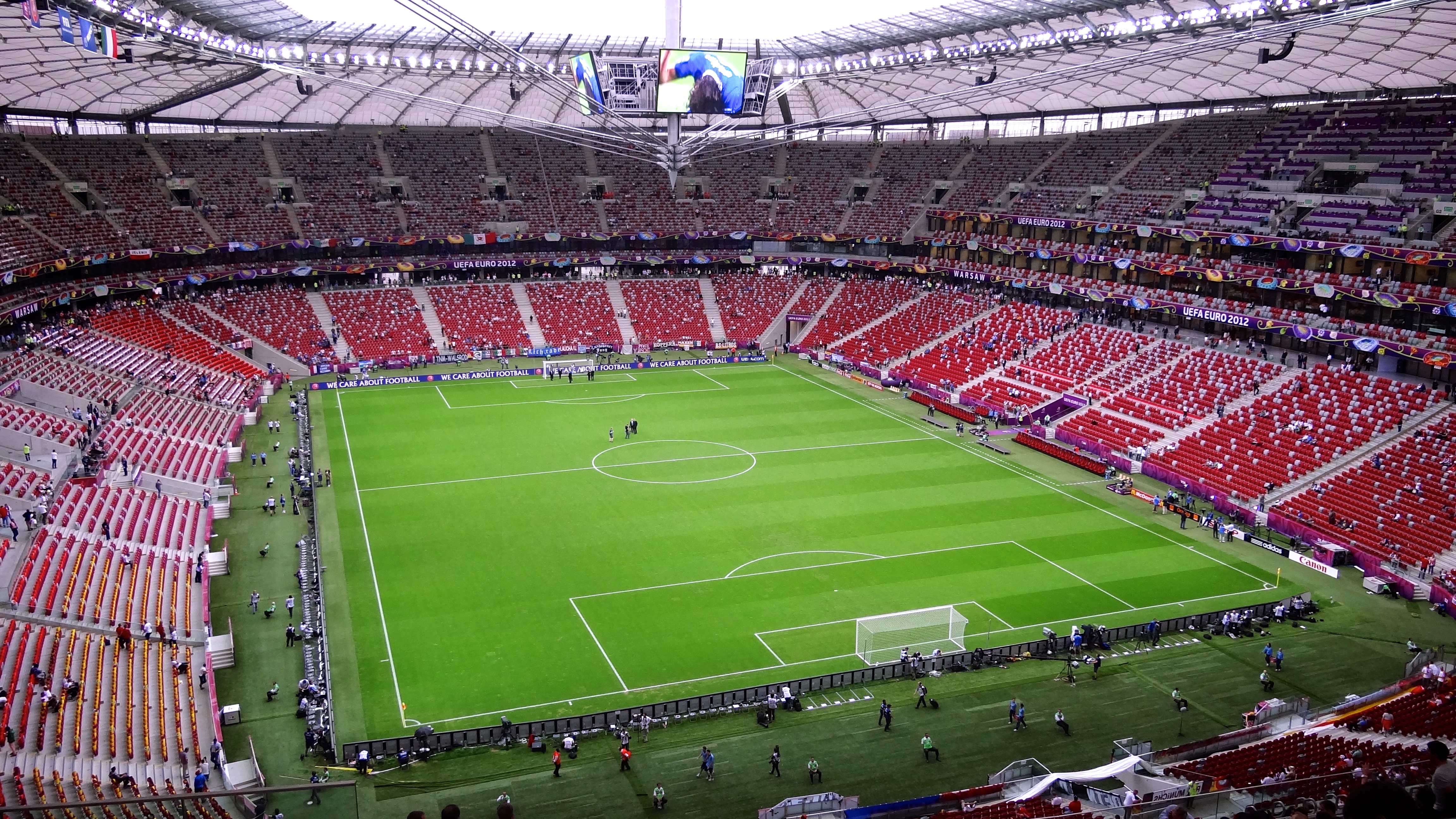 Warsaw National Stadium before Germany - Italy, UEFA EURO 2012.